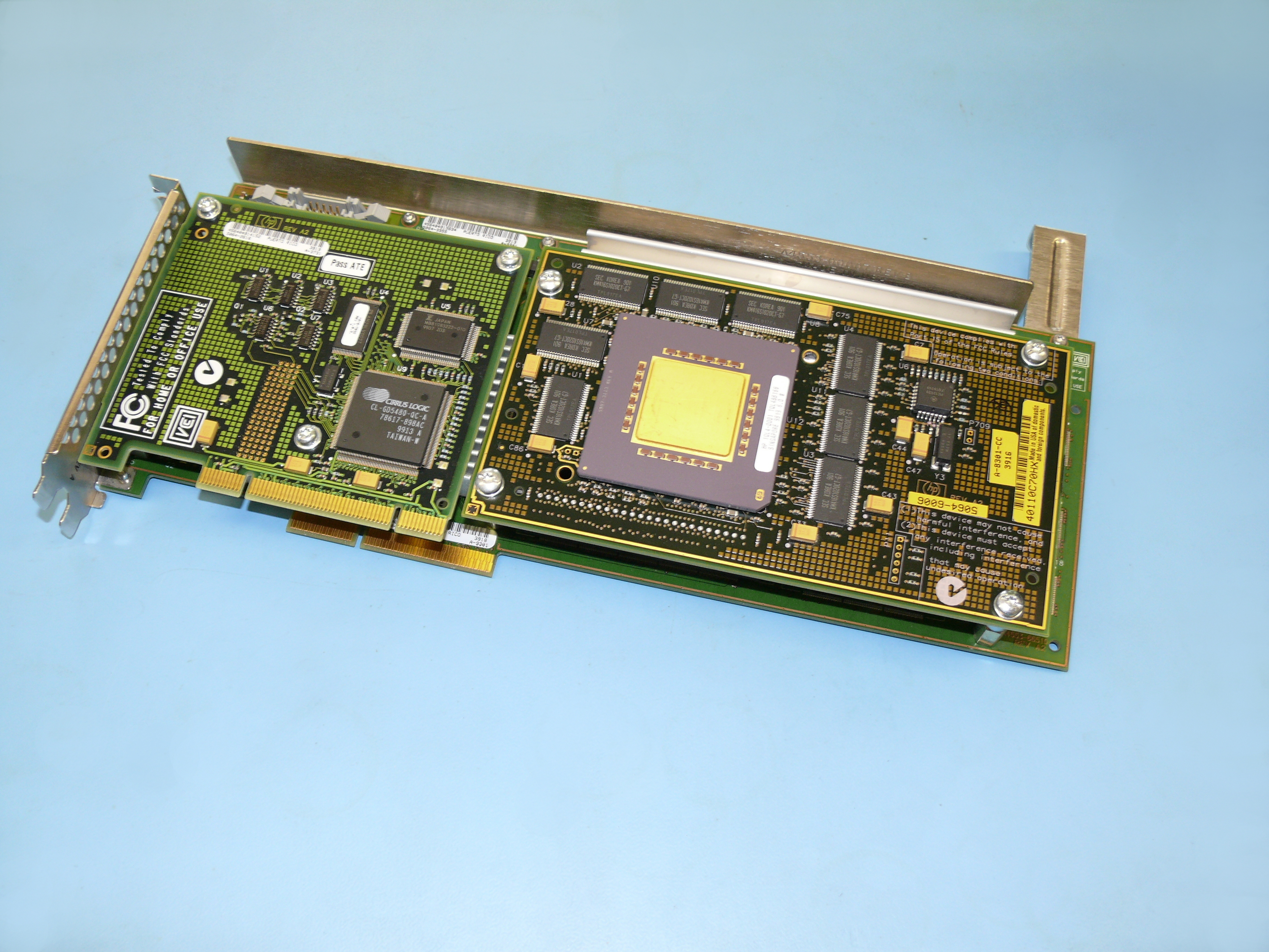 Hewlett-Packard FX6+ 24 Bit Graphics Board with PA-RISC geometry processors and PA-RISC CPU-Texture Module, 18 MByte RAM - removed heatsink